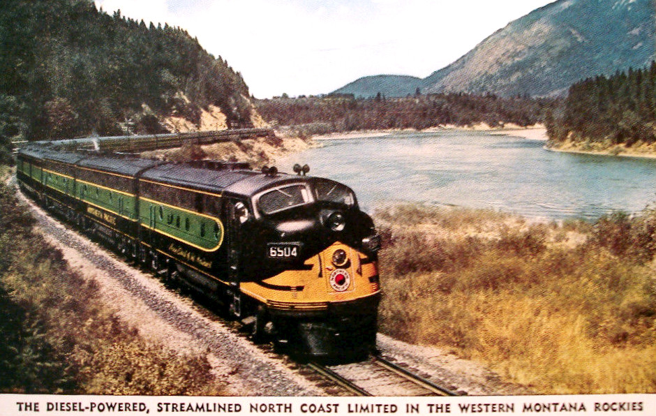 Postcard photo of Northern Pacific Railway's North Coast Limited. The train is shown after it became a diesel powered streamliner and in the railroad's older paint scheme.